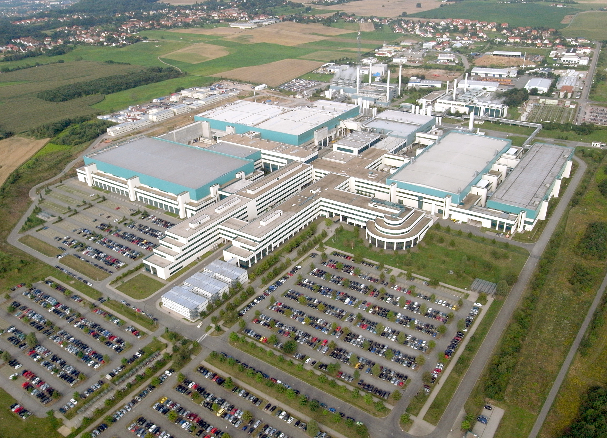 Aerial photograph of GlobalFoundries' Fab 1 fabrication facility in Dresden, Germany.